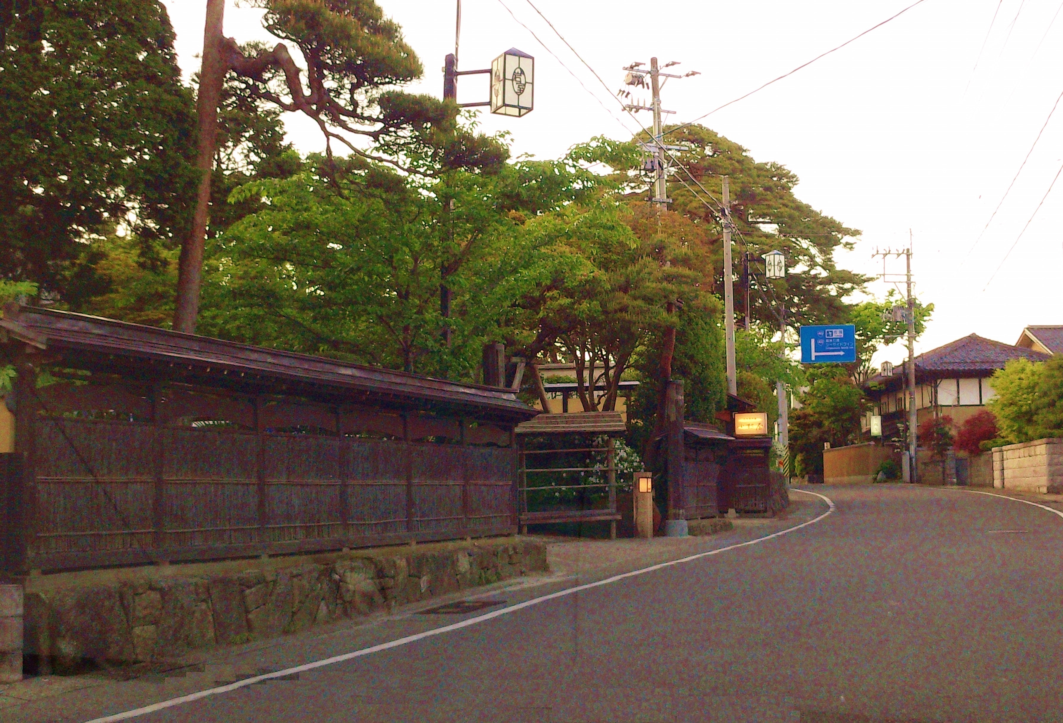 Iwamuro-onsen(Iwamuro-spa),Niigata-city,Niigata,Japan